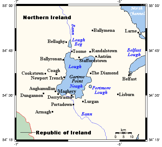 A map showing Lough Neagh and nearby areas.